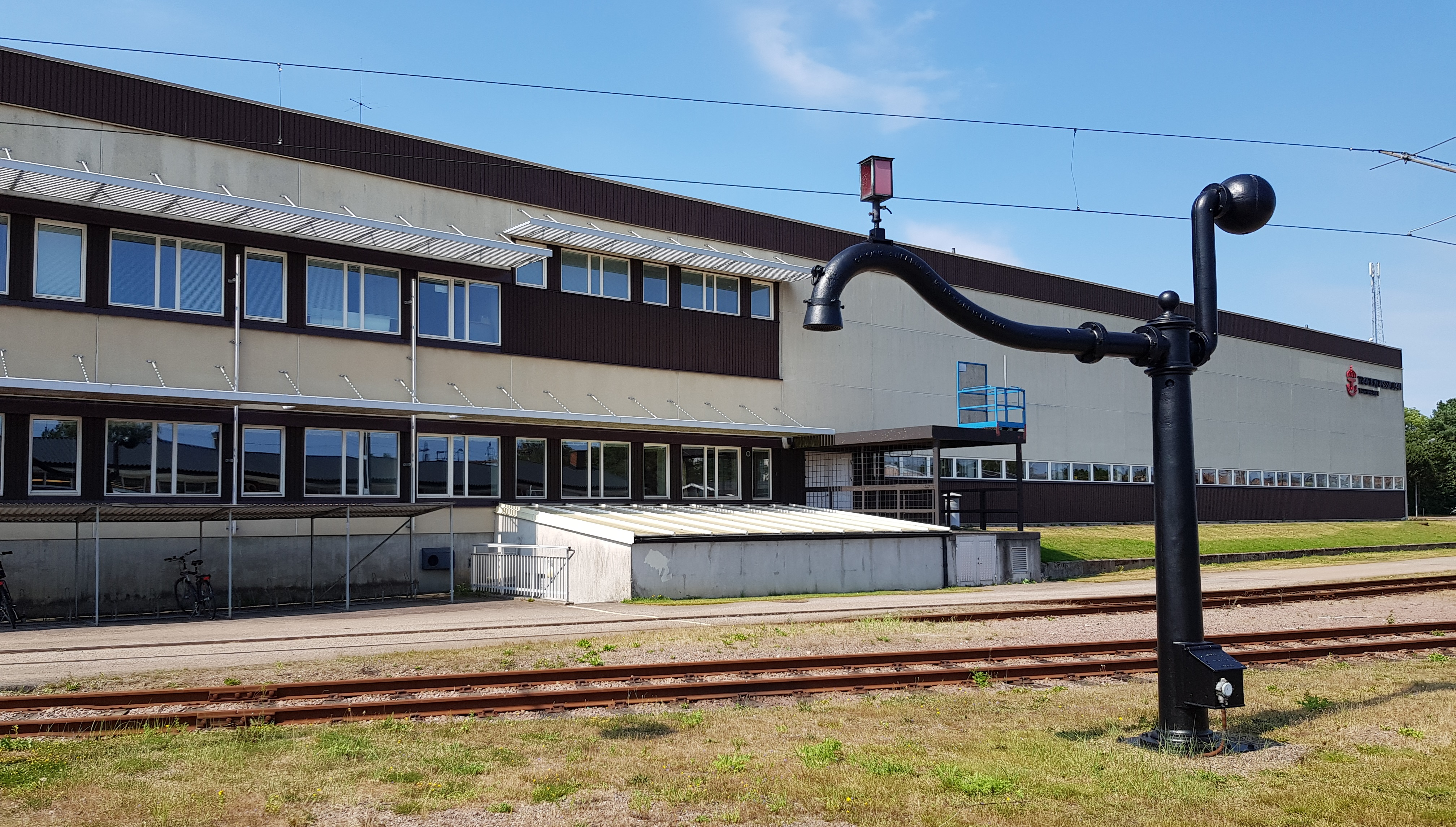 Trafikverksskolan in Ängelholm, Sweden.